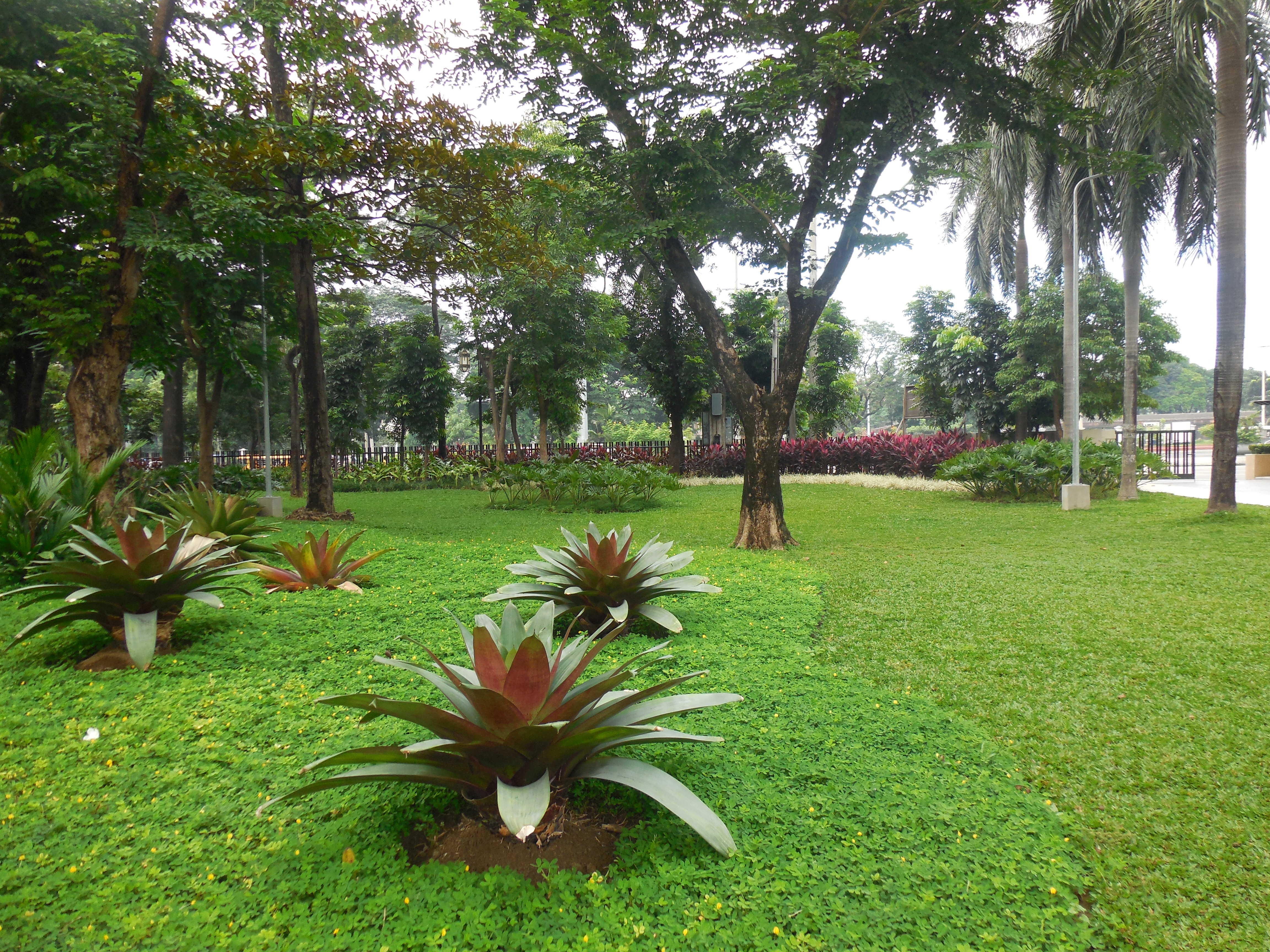 Mehan Garden, Manila's only botanical garden.